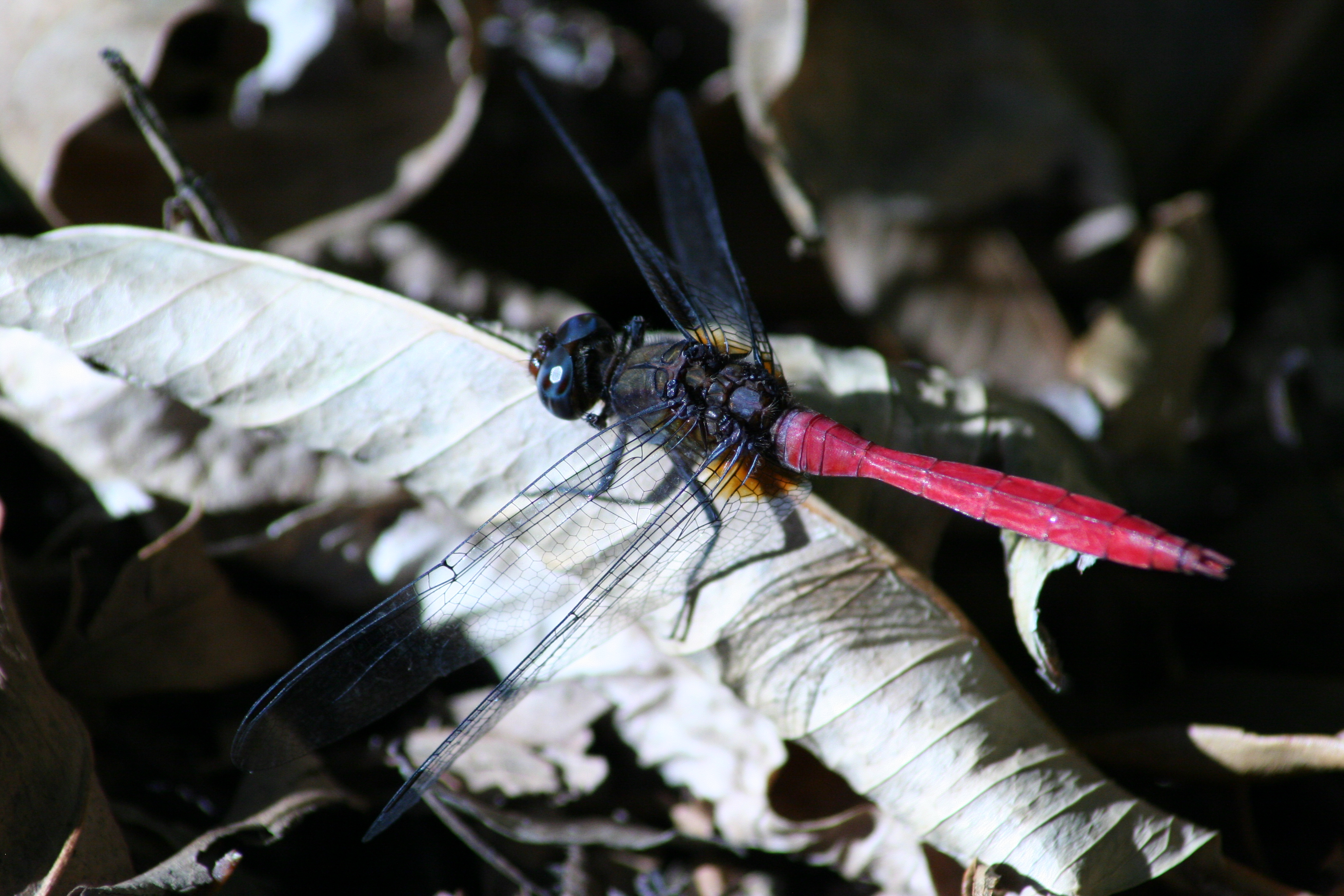 A male O. villosovittatum resting near a pond in SE Qld, Australia